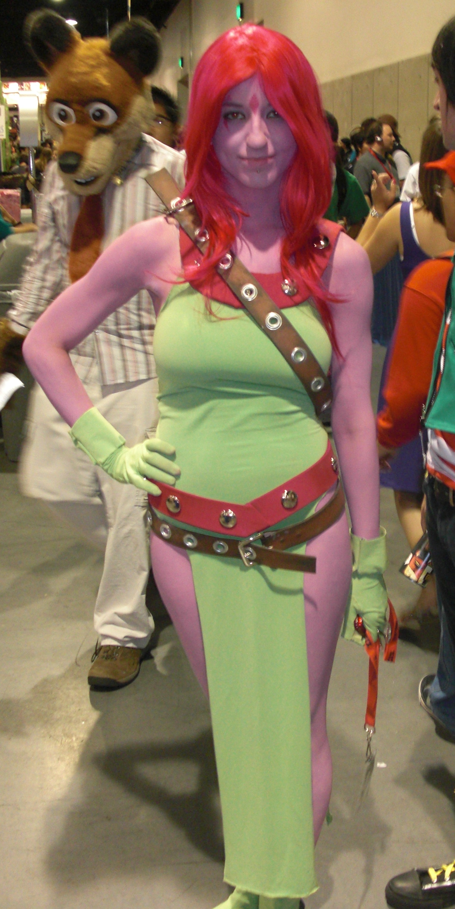 Cosplay of Blink, X-Men and Exiles character, San Diego Comic Con 2009